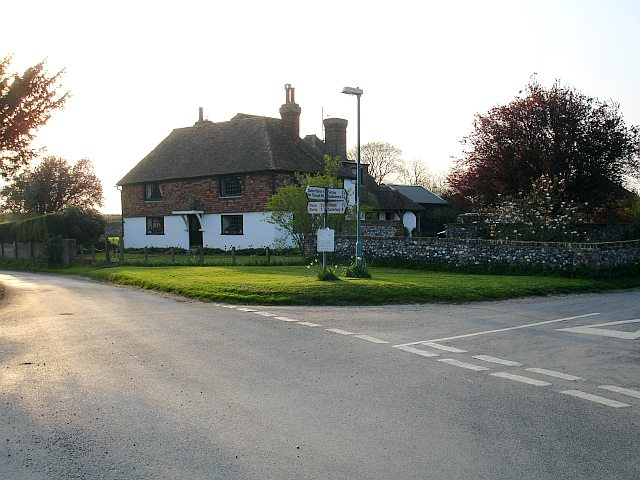 Shottenden crossroads The junction of Soleshill Road with Goldups Lane, Denne Manor Lane is out of shot on the left. There is an Inn marked at this crossroads on the 1940s map, I think it may have been this building. The large scale map names it as Hares Farm.